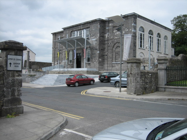 The Dock, Carrick-on-Shannon. The former county Court House (Carrick-on-Shannon is the County Town of Co Leitrim) has been converted for use as an Arts Centre.